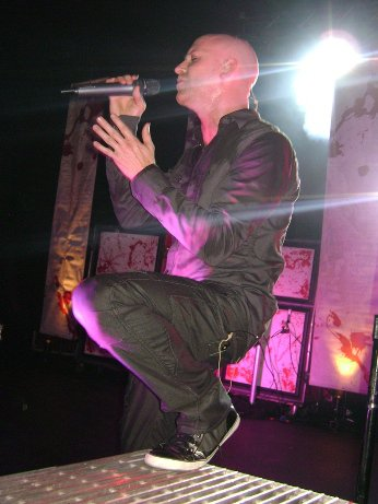 Michael Barnes performing on the Nothing & Everything Tour